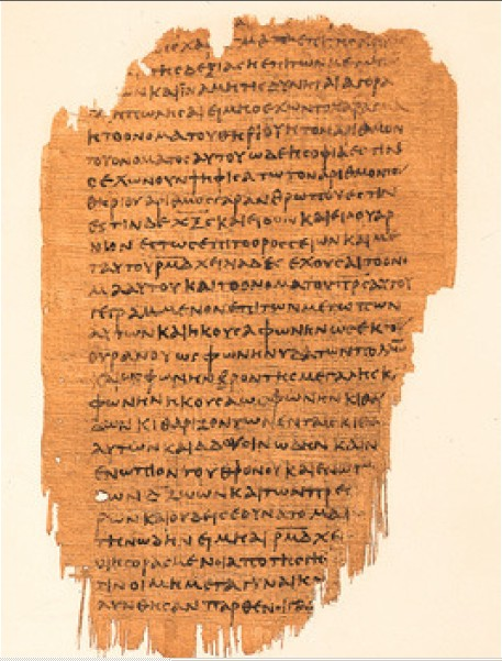 page of the codex with text of Revelation 13:16-14:4